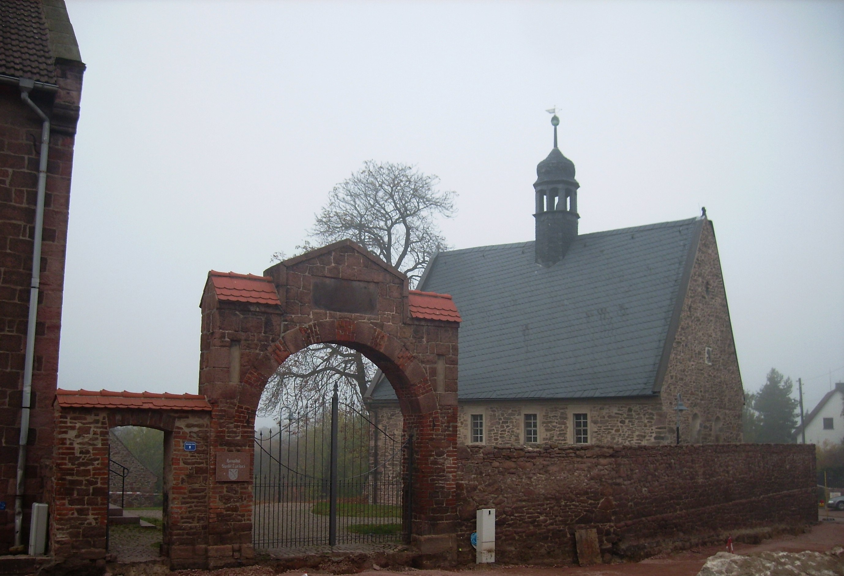 St. Cyriacus Hospital Church in Löbejün (Wettin-Löbejün, district of Saalekreis, Saxony-Anhalt)